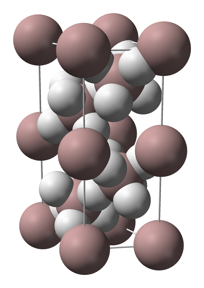 Space-filling model of the unit cell of the alpha polymorph of aluminium hydride (alane), α-AlH3. X-ray and neutron diffraction data from June W. Turley and Harold W. Rinn (1969). "Crystal structure of aluminum hydride". Inorg. Chem. 8 (1): 18-22. Image generated in Accelrys DS Visualizer.